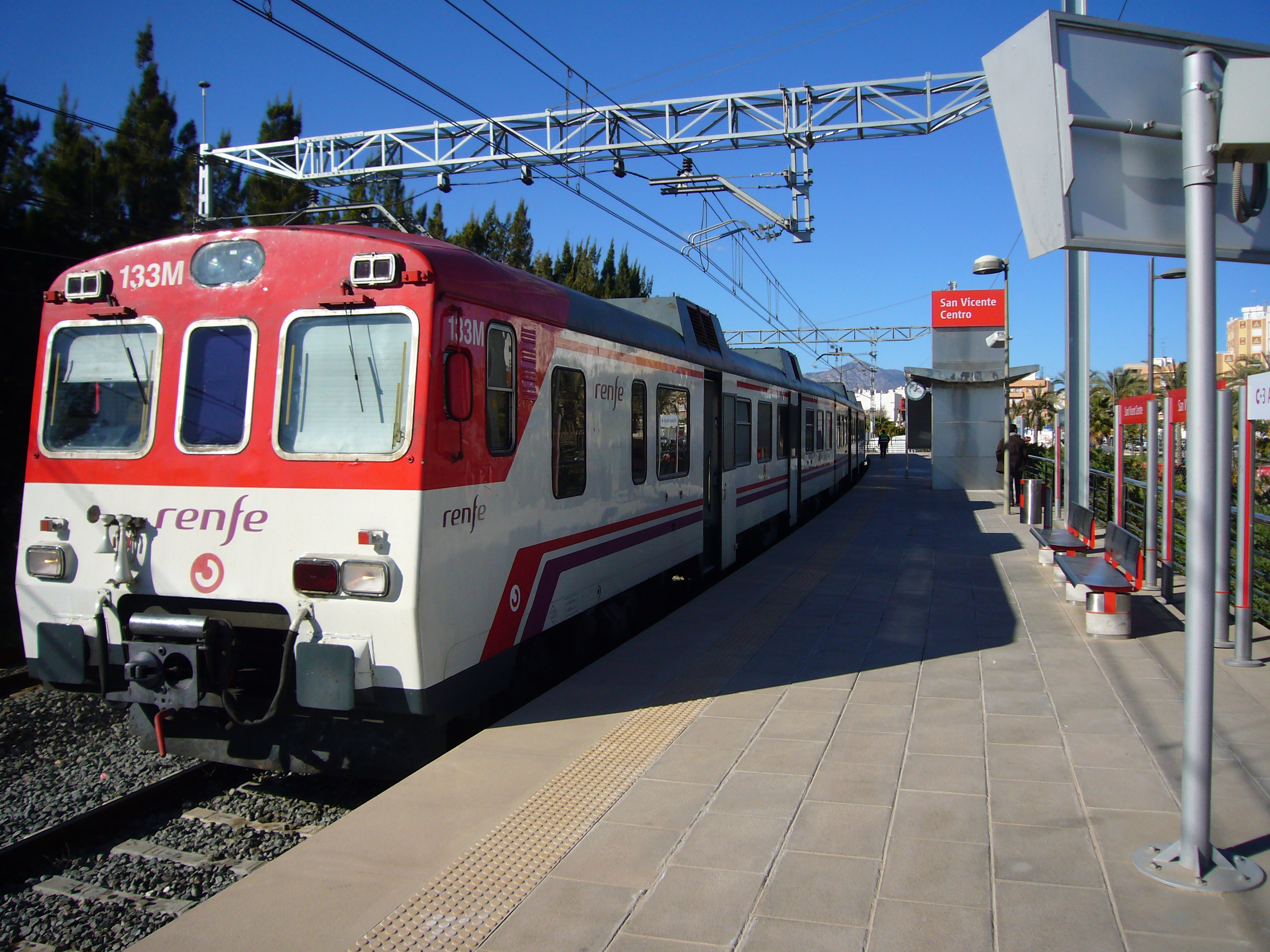 Railway stop San Vicente Centro/Sant Vicent Centre in the line C-3 Cercanías Murcia/Alicante.